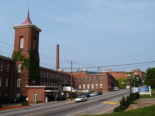 Whitin Machine Works, Whitinsville, Massachusetts, Main Street